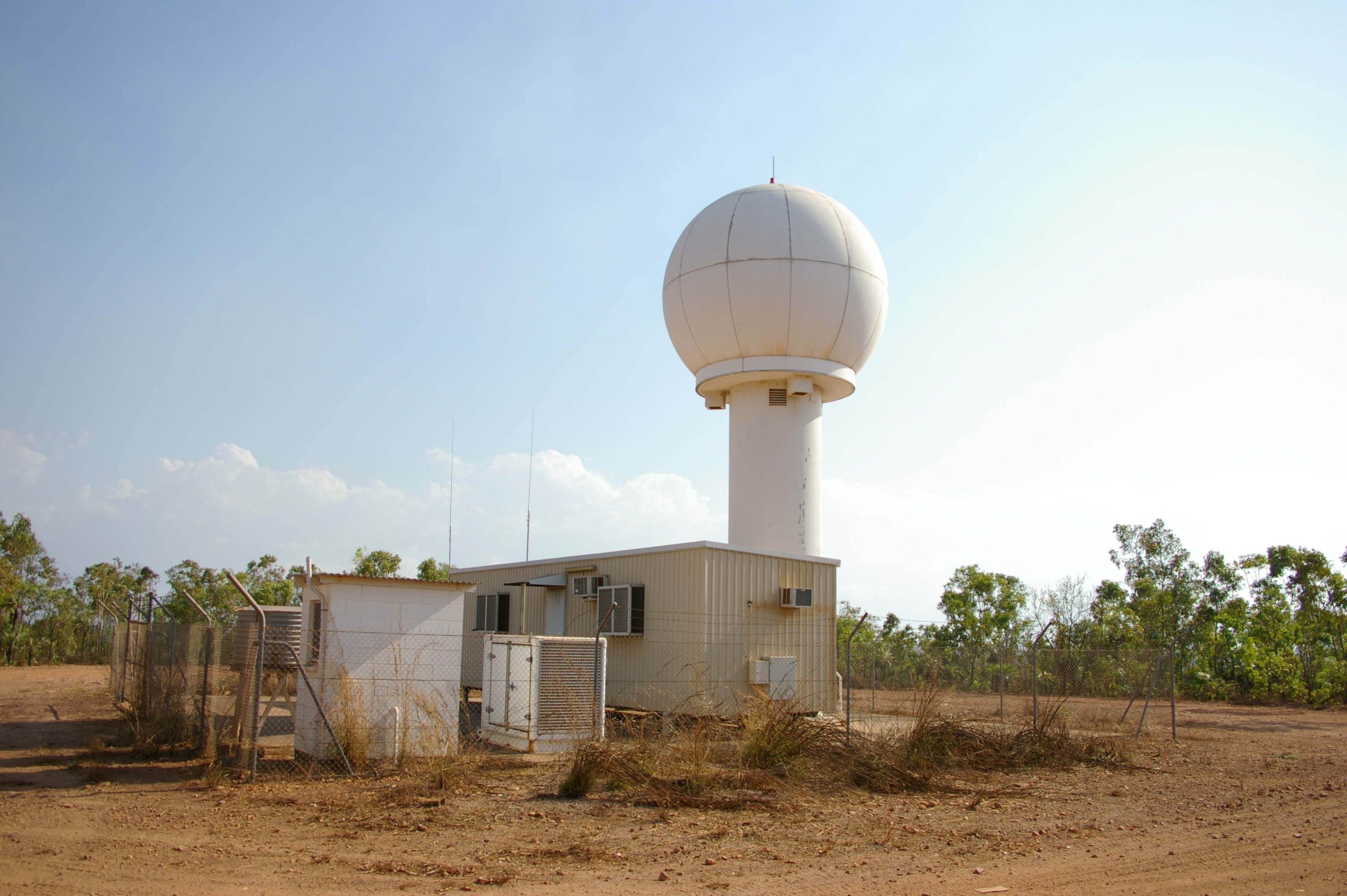 Bureau of Meteorology Berrimah radar, Darwin Northern Territory. WSR-74 C band radar[1].